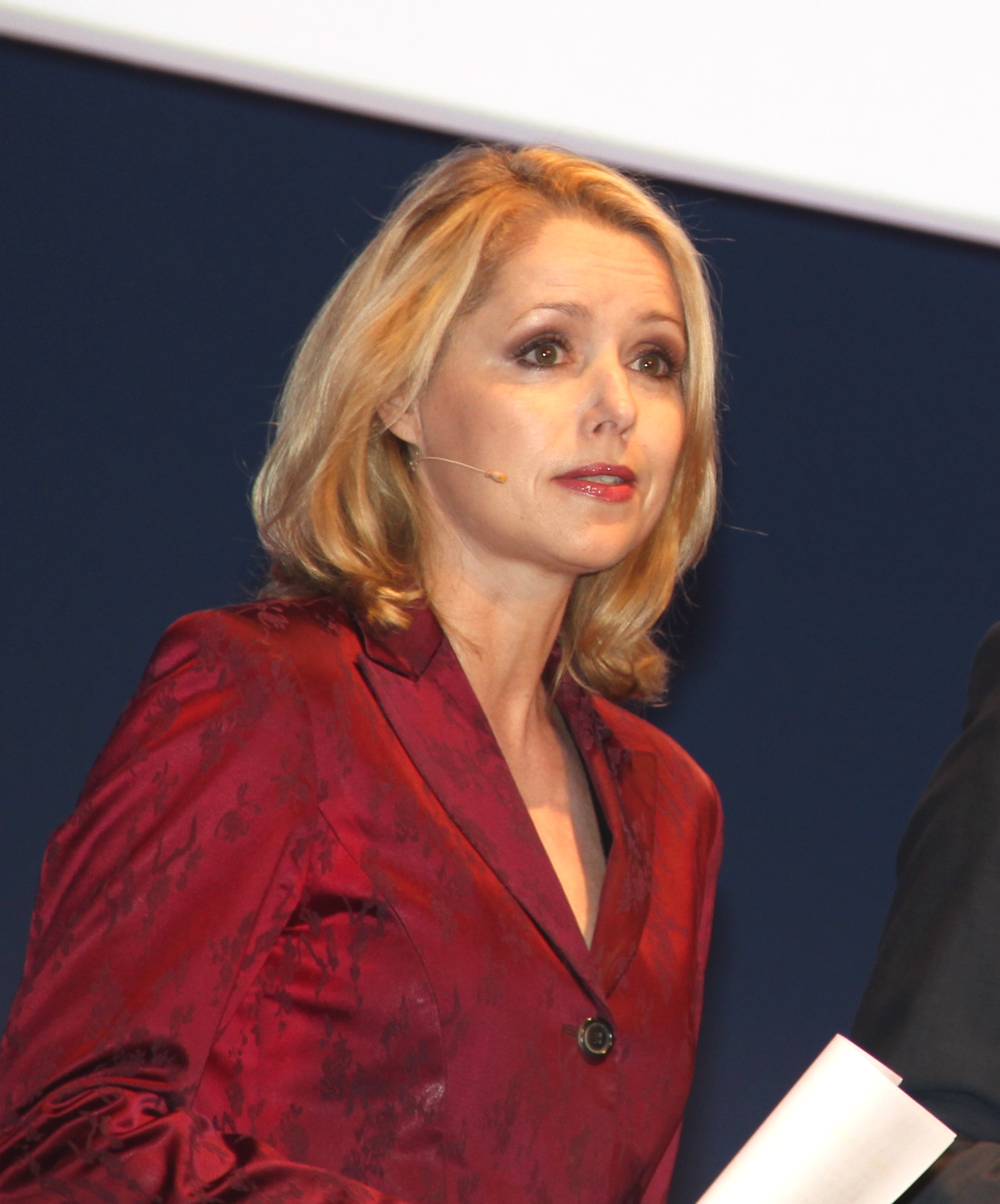 TV-Moderator and Journalist Astrid Frohloff at the Electromobility conference in Berlin 2013